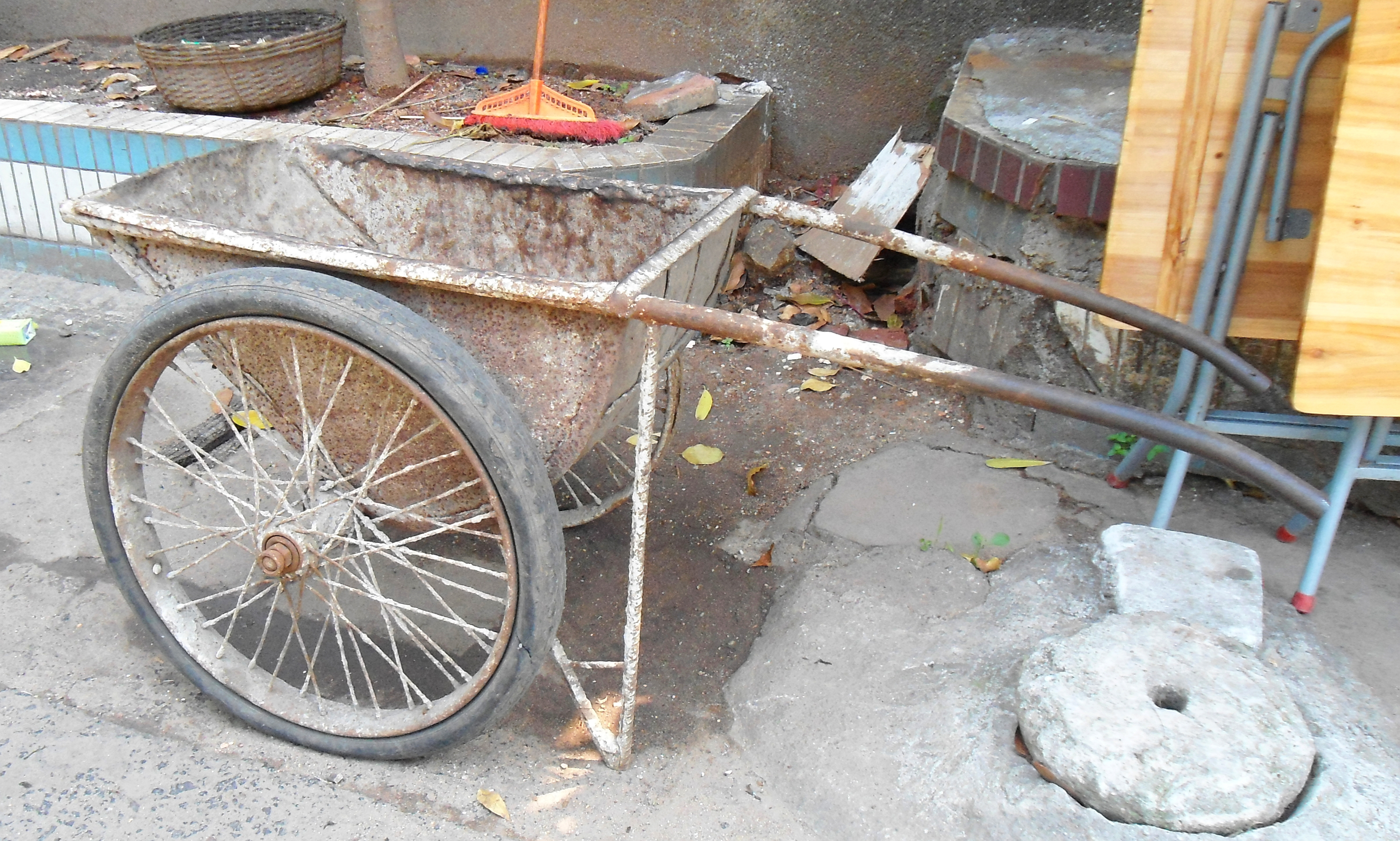 Haikou City, Hainan Province, China